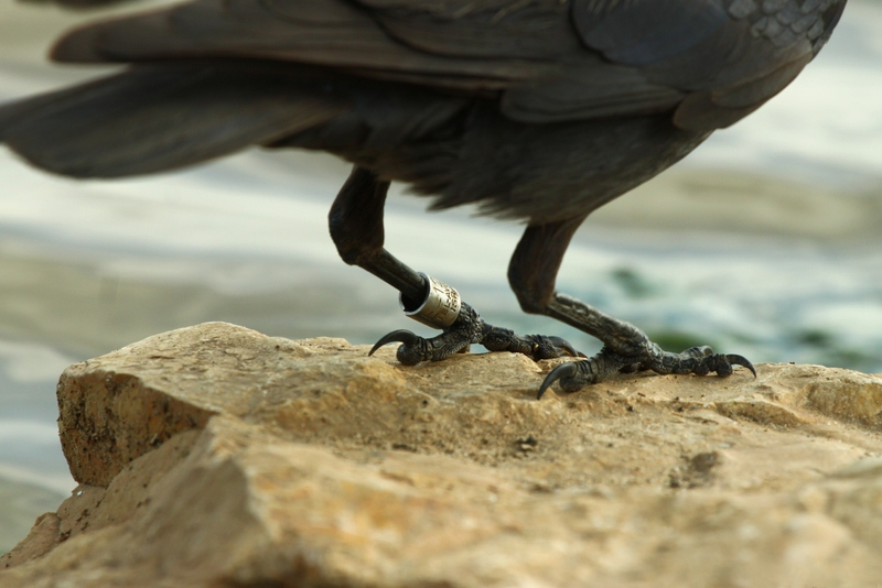 A Jackdaw with a numbered aluminum ring on its left tarsus